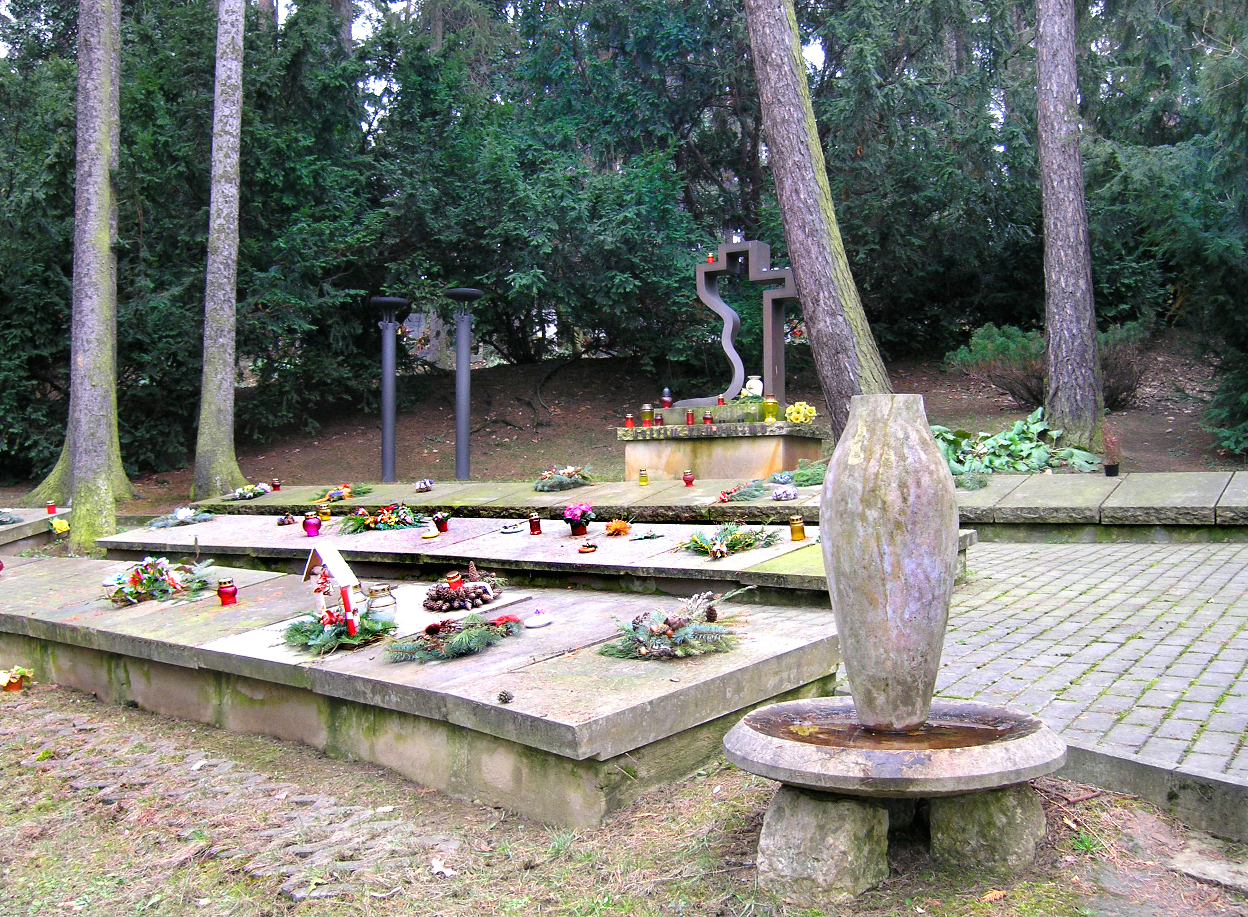 Comunist victim's Memorial at Motol, Prague